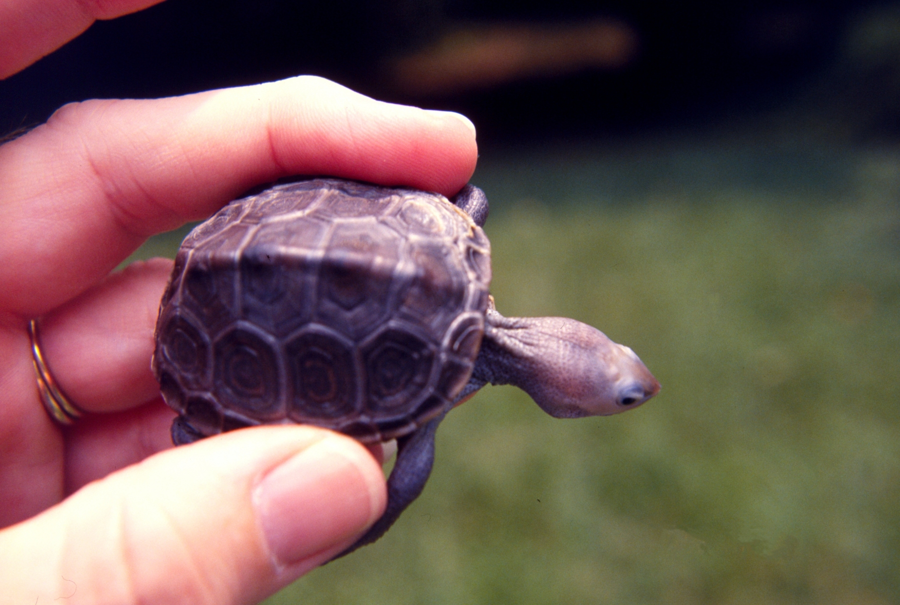 Baby Diamondback turtle.